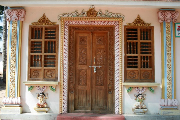 Beautiful Door Carvings at Kalaseswara Temple, Kalasa, Karnataka, India.